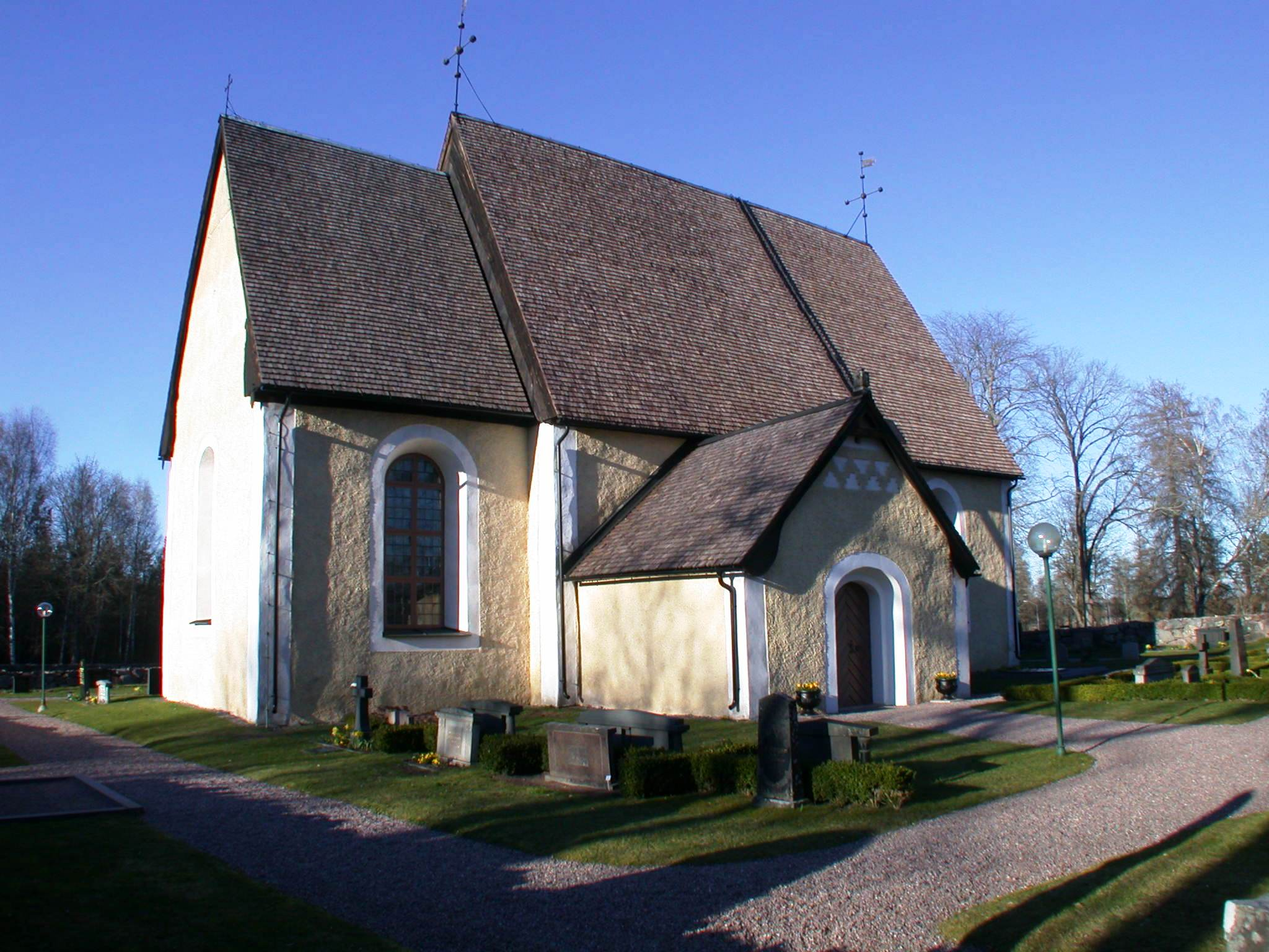 Stavby church, Uppsala, Sweden.